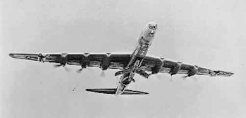 The U.S. Air Force FICON (Fighter Conveyer) project: YRB-36 with YF-84F in stowed position.